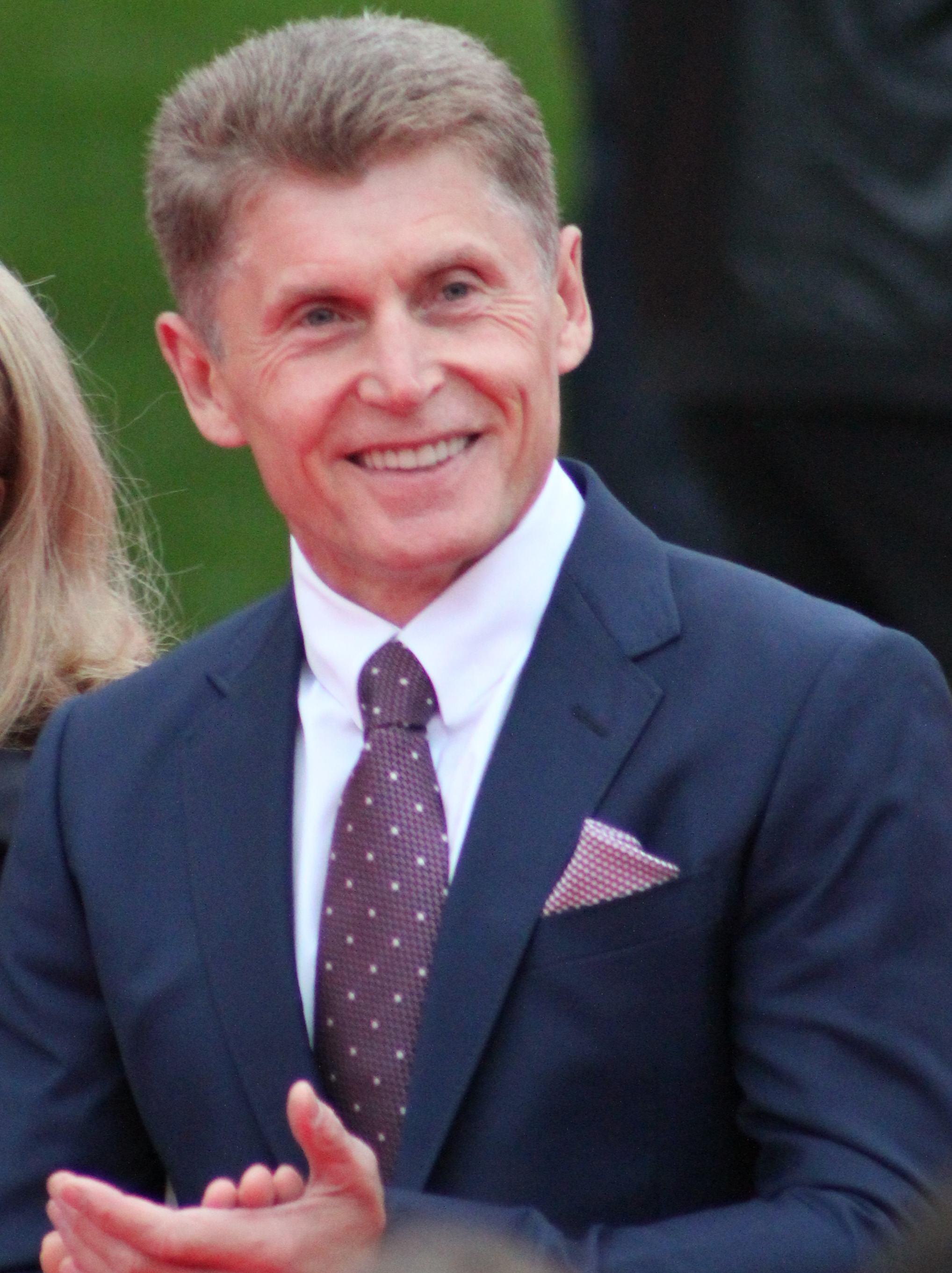 Oleg Kozhemyako in 2015 International Film Festival On the Edge